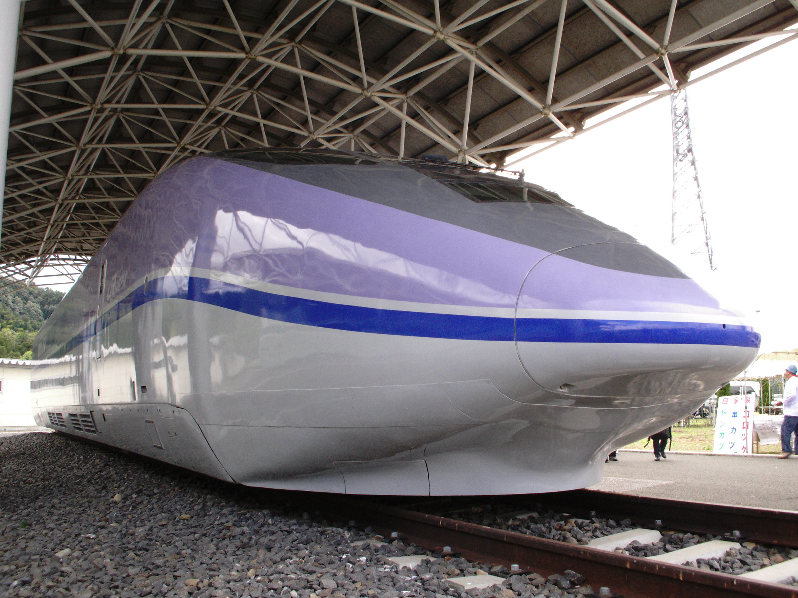 Car 500-901 of the JR West "WIN350" experimental shinkansen train preserved at the Railway Technical Research Institute wind tunnel facility in Maibara, Japan